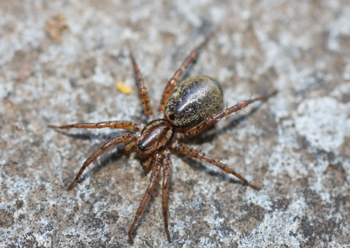 Copa kei female from Hogsback, South Africa.